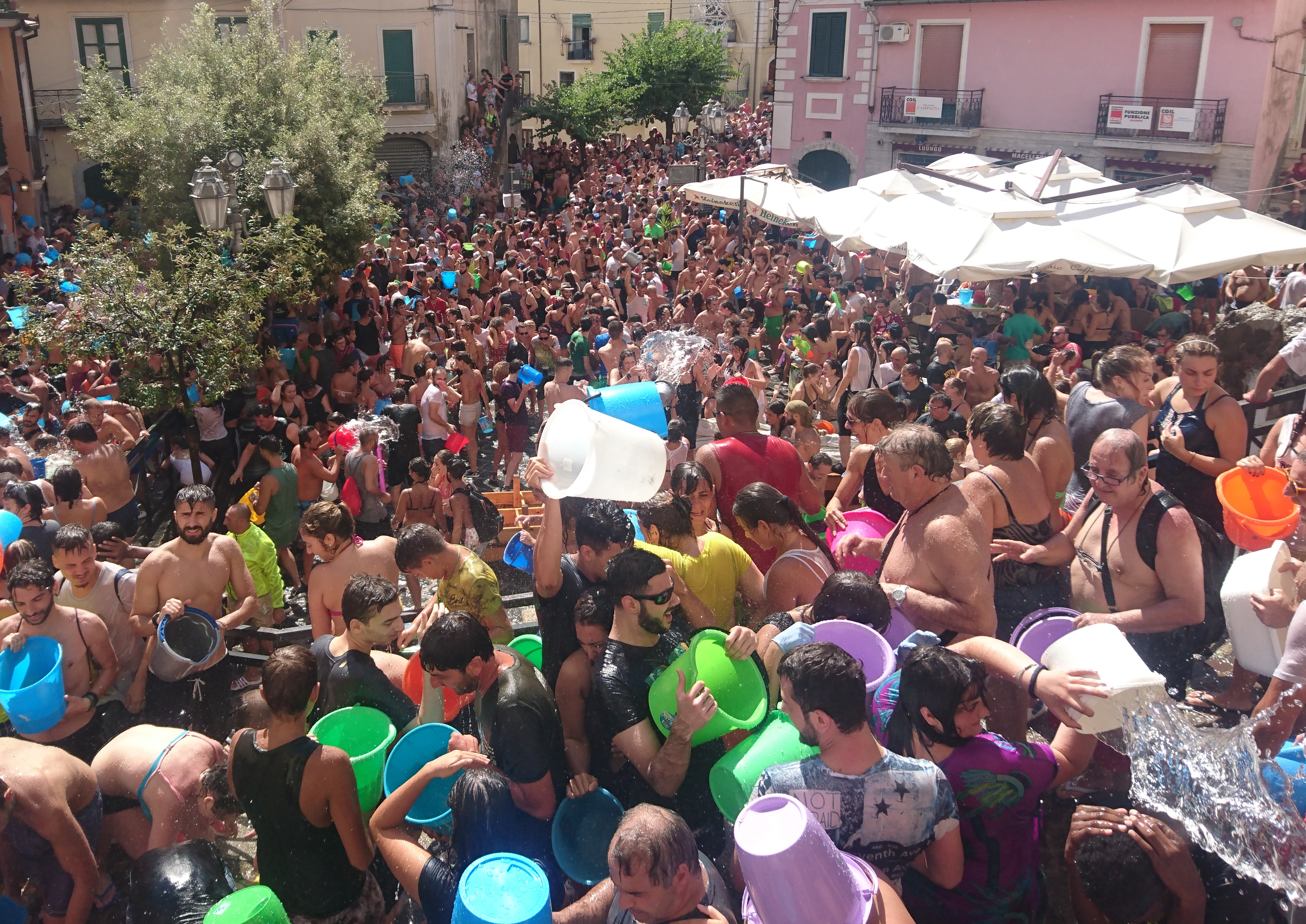 'A Chiena festivities of Campagna, Italy in August 2017.